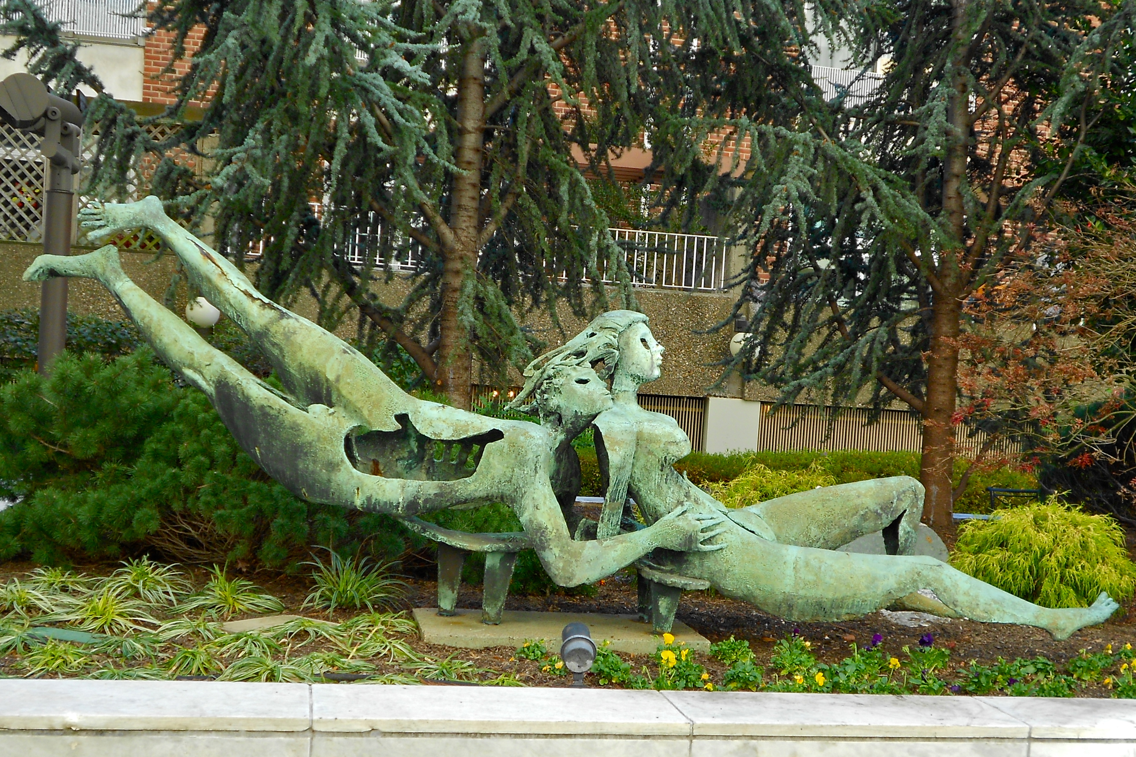 Adam and Eve (sculpture by Oscar Stonorov)in the courtyard of Hopkinson House 604 South Washington Square installed 1962 by Oscar Stonorov, Bronze sculpture, 49 x 12.5 in. Smithsonian SIRIS reference IAS 75009329. No visible copyright notice, so out of copyright